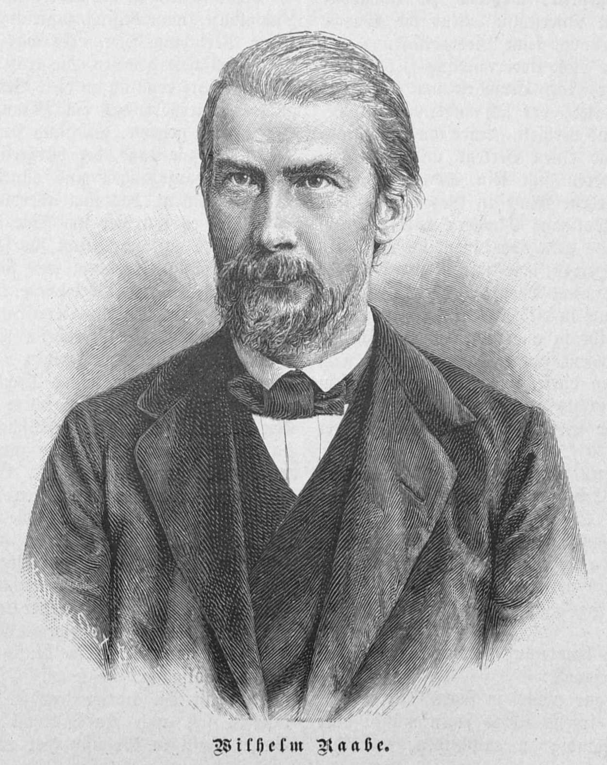 caption: "Wilhelm Raabe."